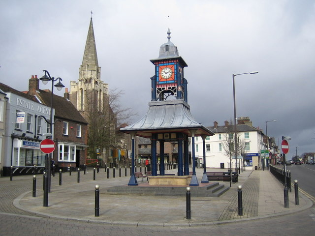 Dunstable: The Clock Tower & Market Cross. The Clock Tower and Market Cross is located in The Square on the west side of the A5 High Street South. It was built in 1999 as a Millennium project. The church is the Methodist Church built in 1909, and their website is here